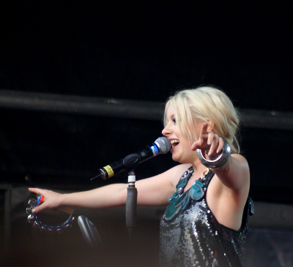 Little Boots at the Evolution Festival in 2009.